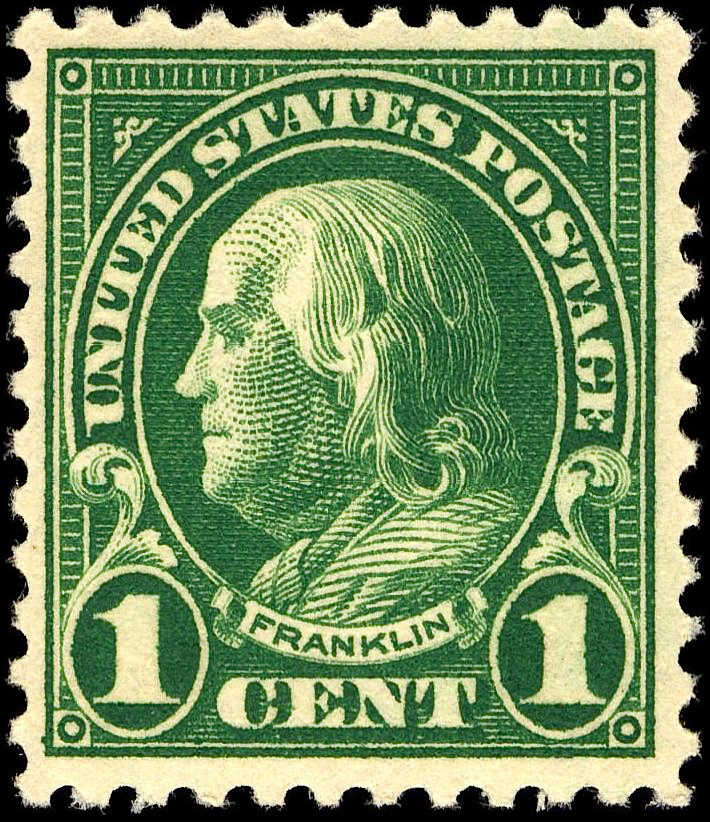 US Postage stamp, Benjamin Franklin 1922 regular issue, 2c, red